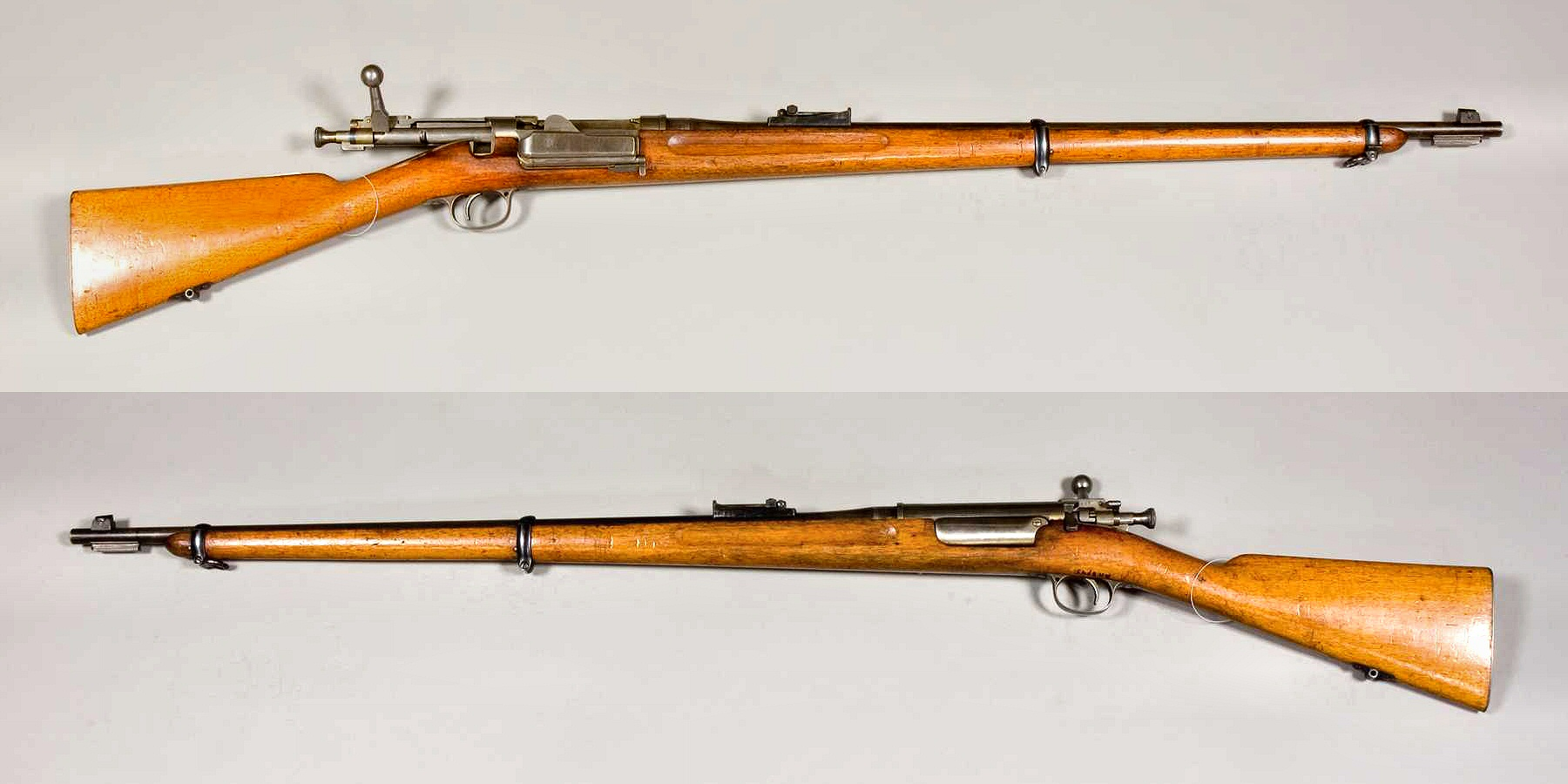 Krag-Jörgensen rifle, Norway. Prototype "försöksmodell 1892". Caliber 6.5x55mm. From the collections of Armémuseum (Swedish Army Museum), Stockholm.